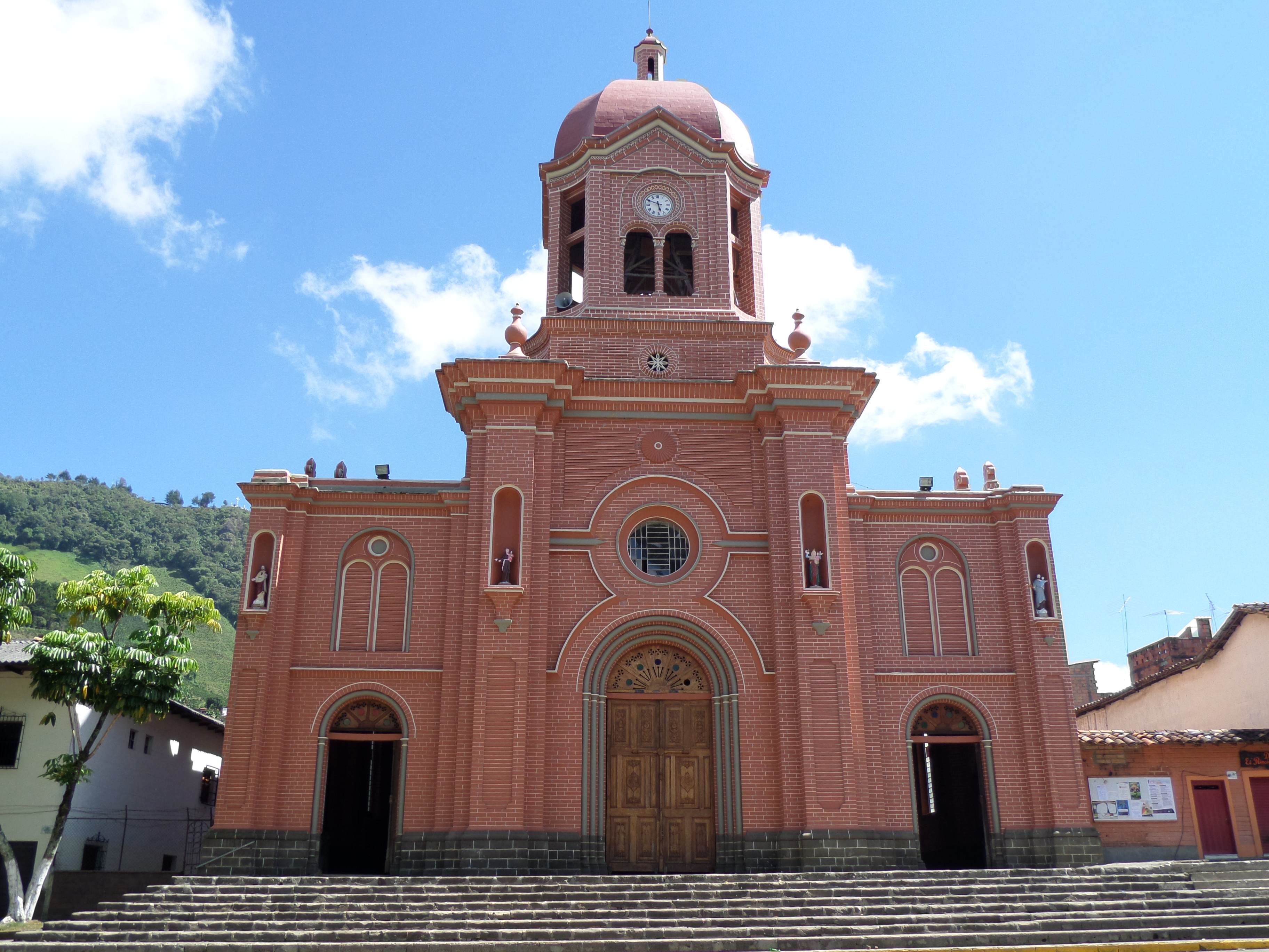 Iglesia San Antonio de Padua